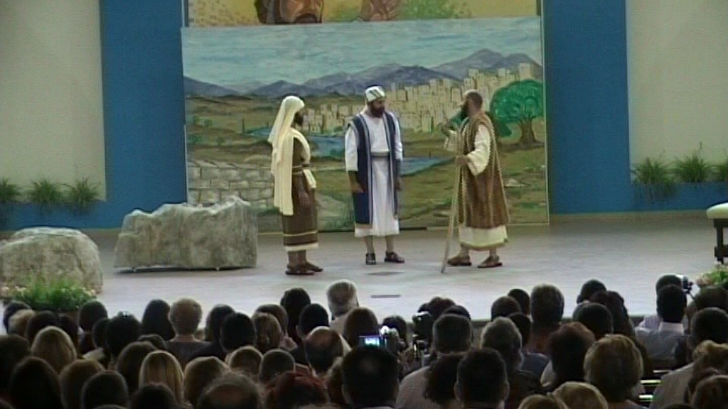 J.W. Bible Drama in 16:9